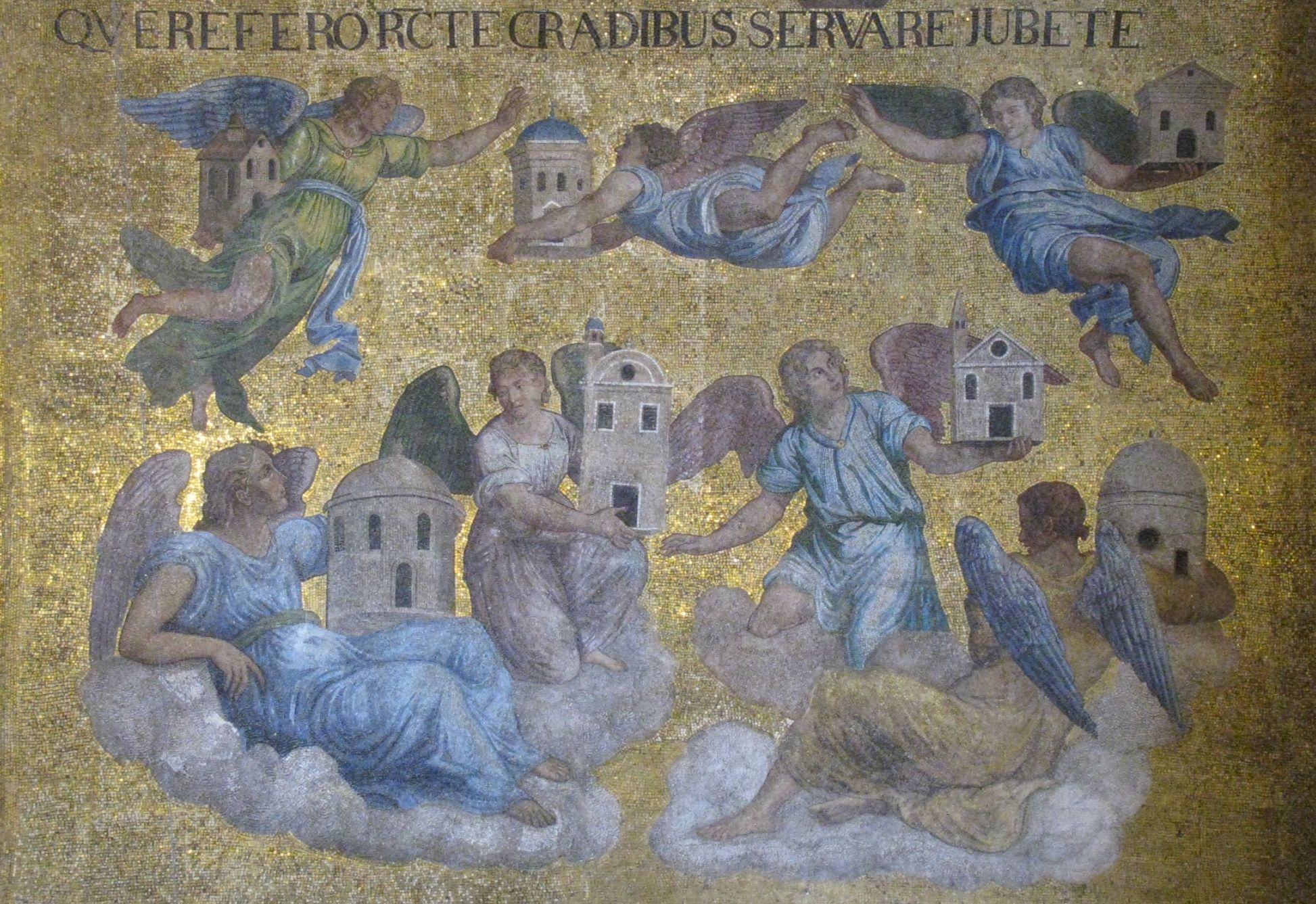 The angels standing guard to the seven churches of Asia (mosaic in basilica di San Marco))